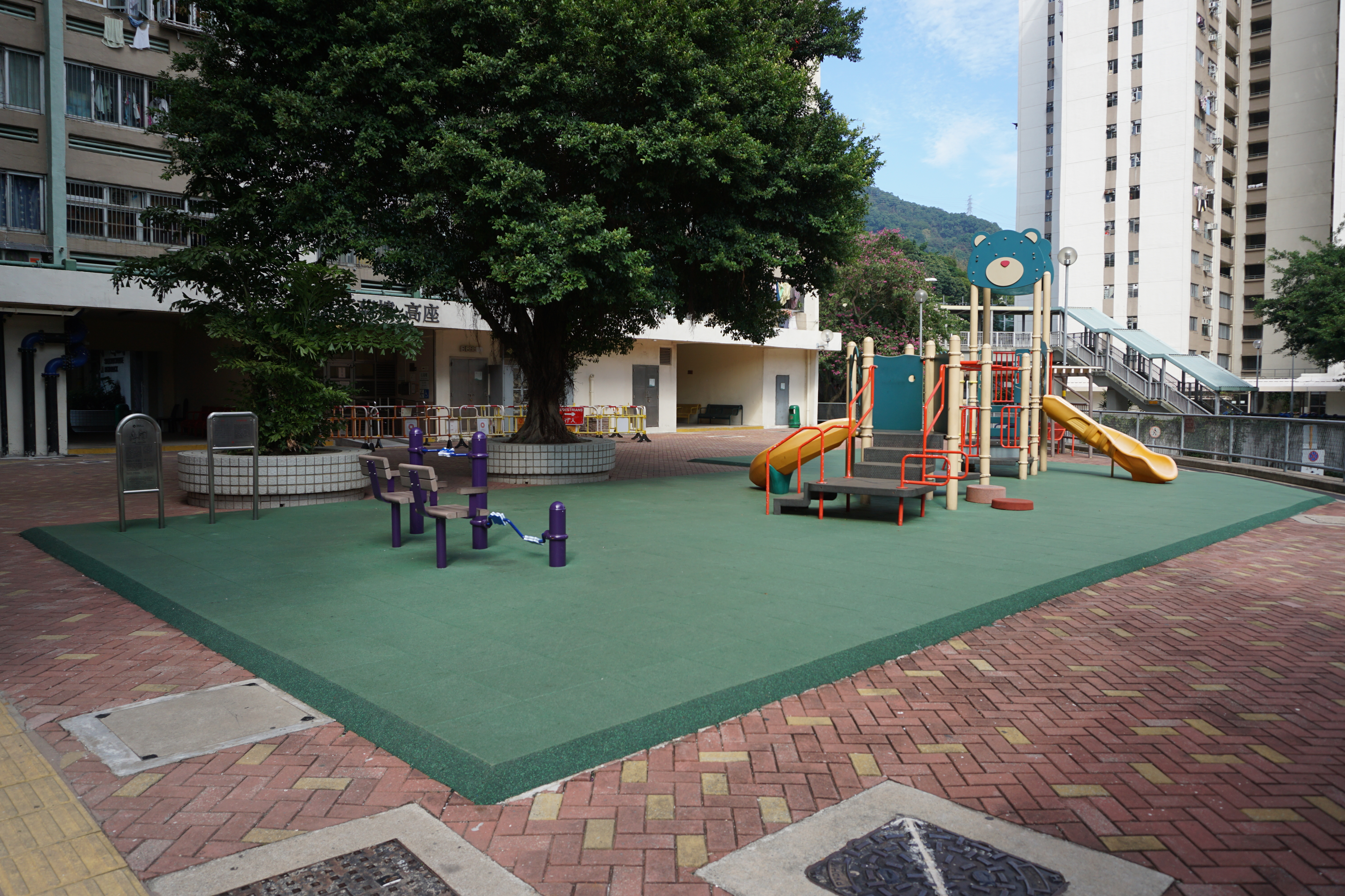 Shek Wai Kok Estate in Tsuen Wan, Hong Kong.